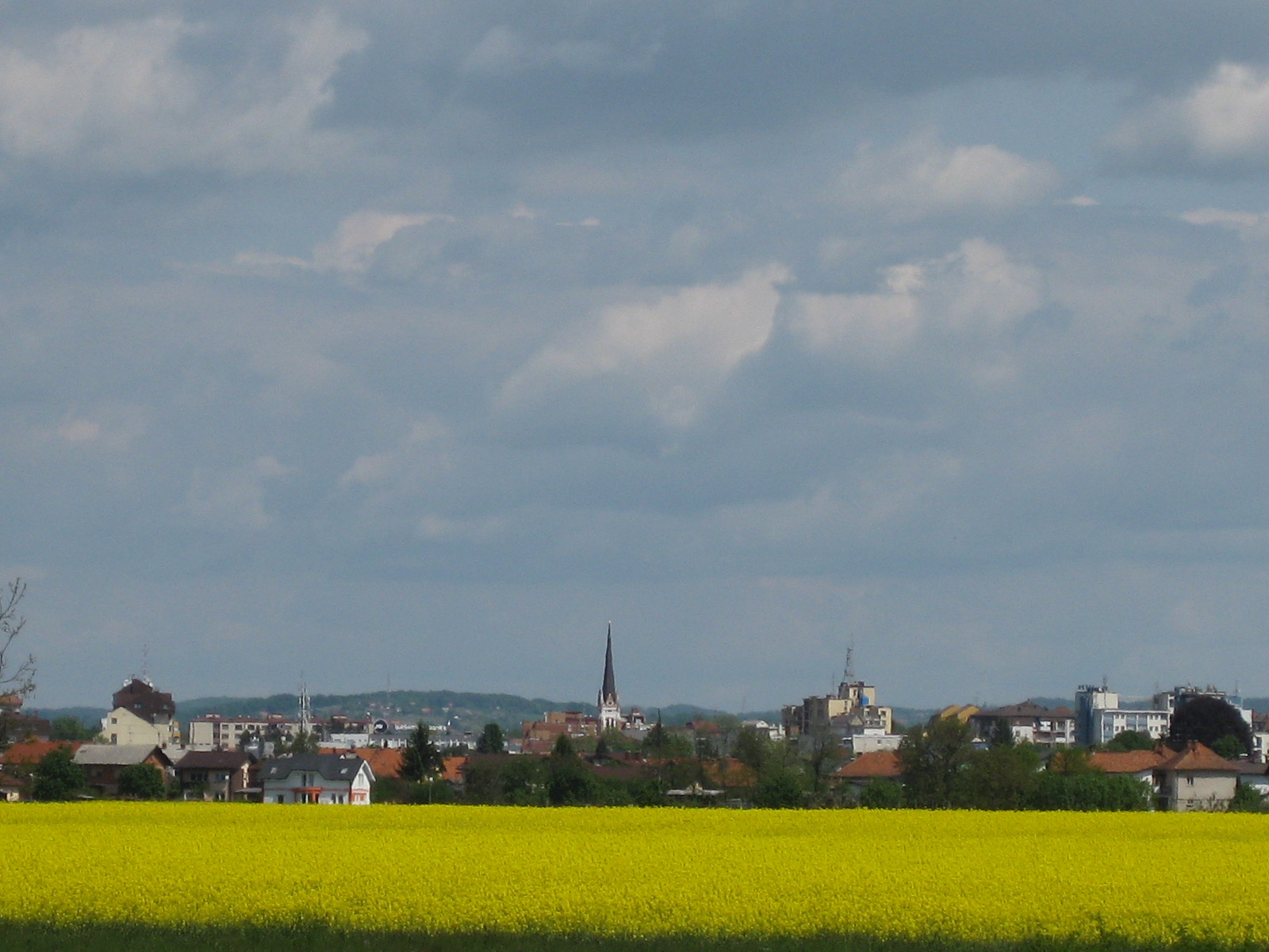 Murska Sobota, city in Slovenia